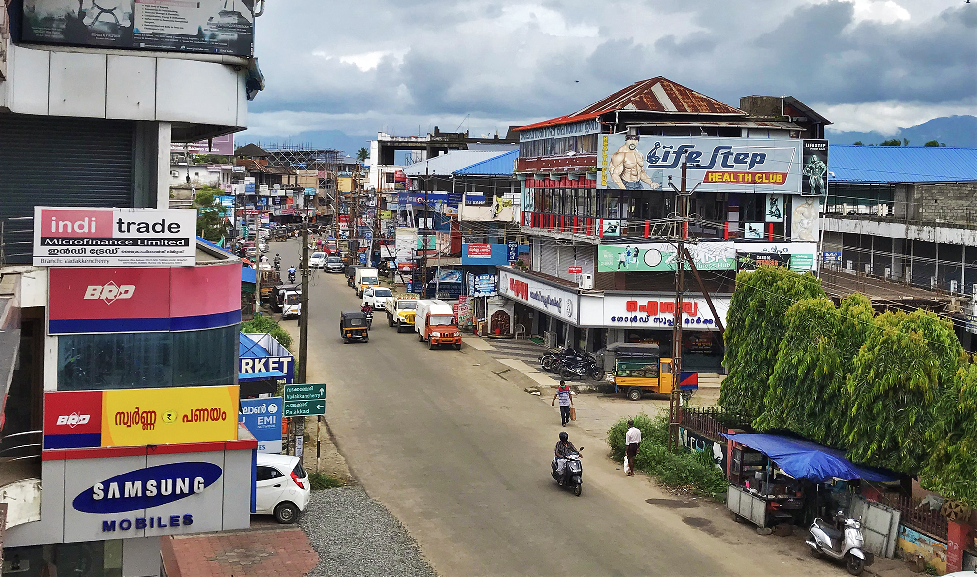 vadakkencherry town view from a building